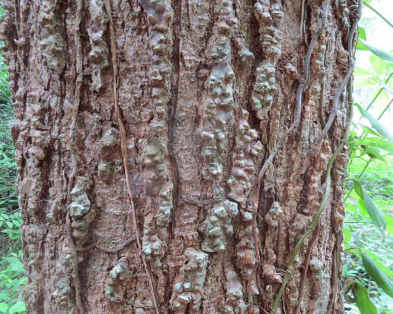 Bark of Cedrela odorata Cedro Amargo or Cigar-box tree Guatemala to Colombia Barro Colorado aromatic wood